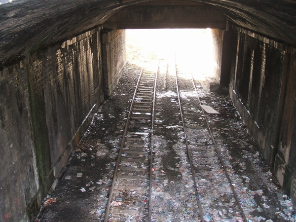 Old freight line to Dudley The Dudley to Walsall line is currently disused but may form part of the proposed 5W's extension to the Midland Metro. The bridges carry the main line and the canal.